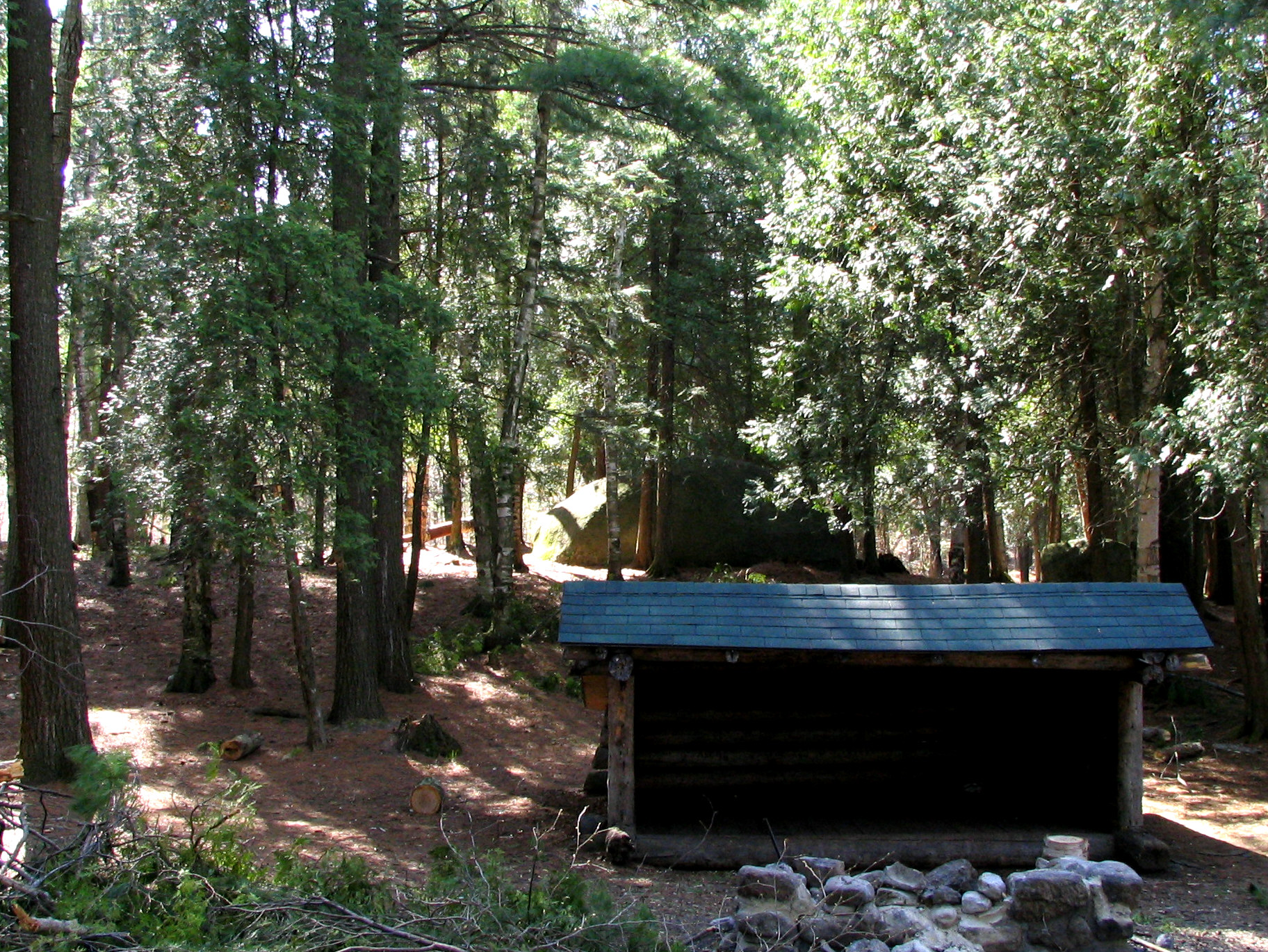 A lean-to on Middle Saranac Lake. Taken by User:Mwanner, 10 May, 2007.